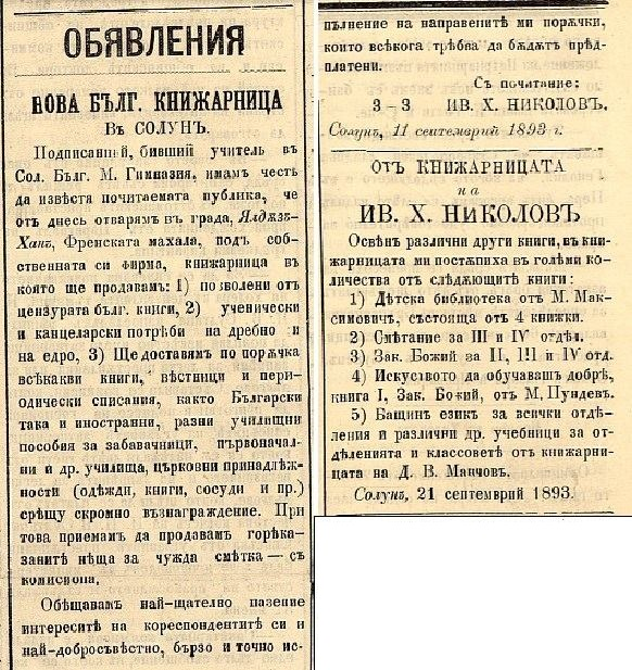 Ivan Hadzhinikolov Bookstore Advertisment Novini Volume IV 1 October 1893